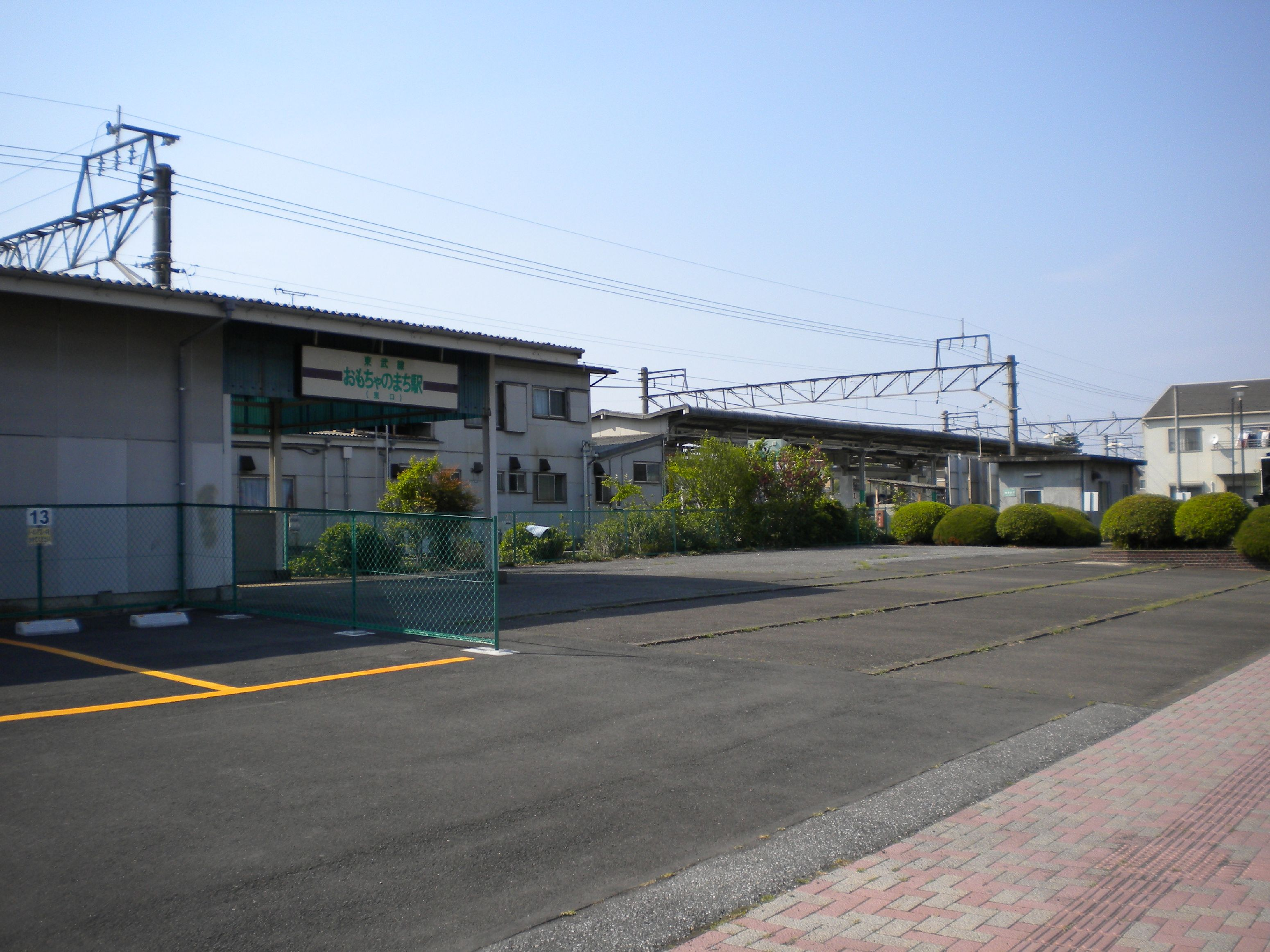 Omochanomachi Station in Mibu, Tochigi Prefecture, Japan.